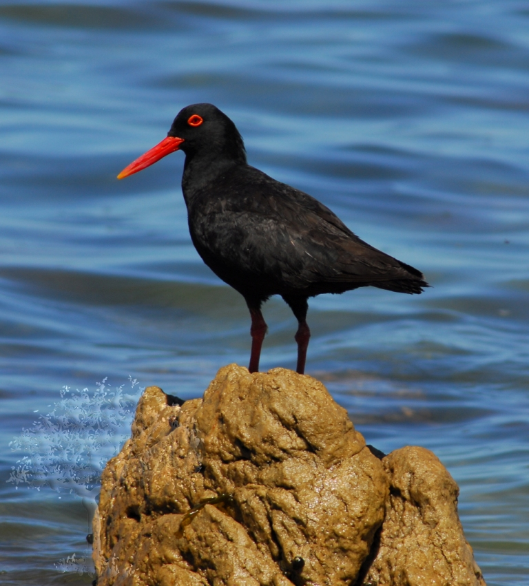 African Black Oystercatcher